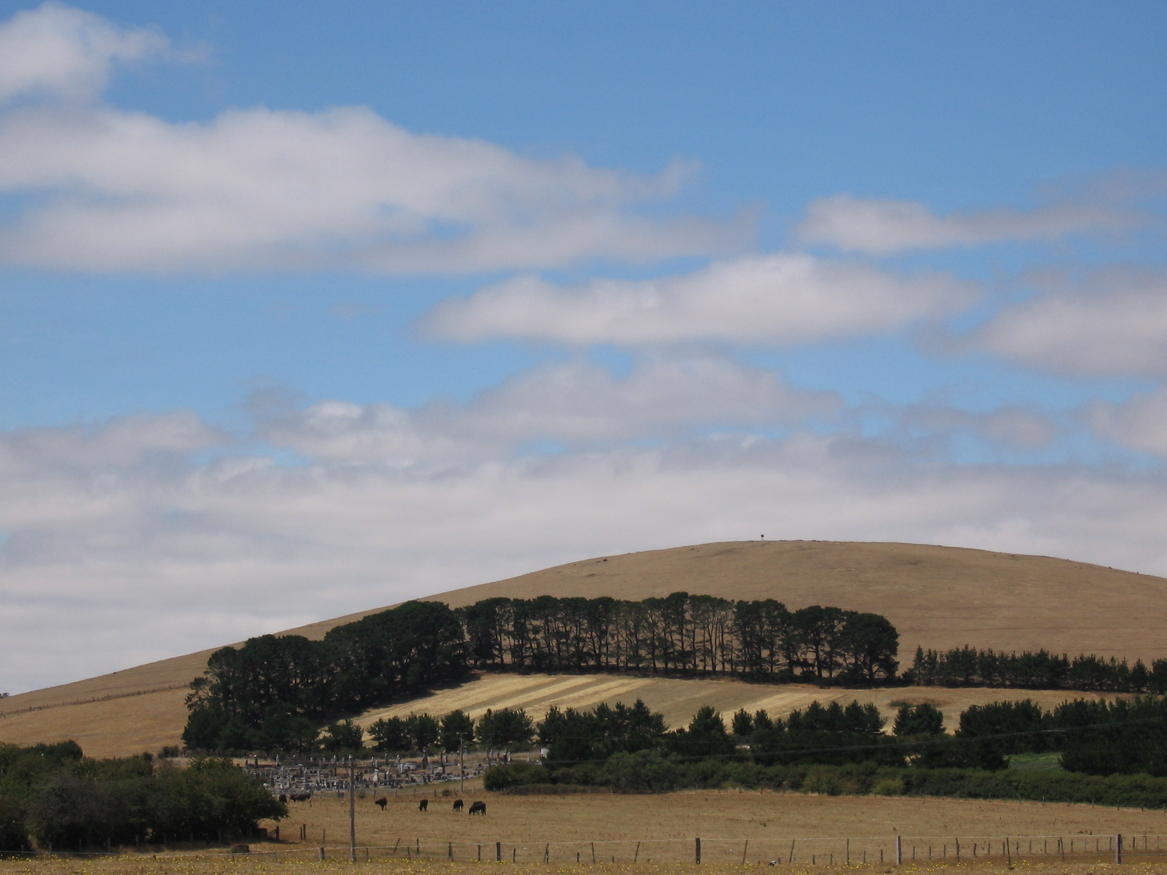 A farm near Lancefield, Victoria, including Lancefield cemetery (left) and Melbourne Hill (horizon).